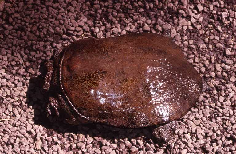 Palea steindachneri in La Vanille, Mauritius